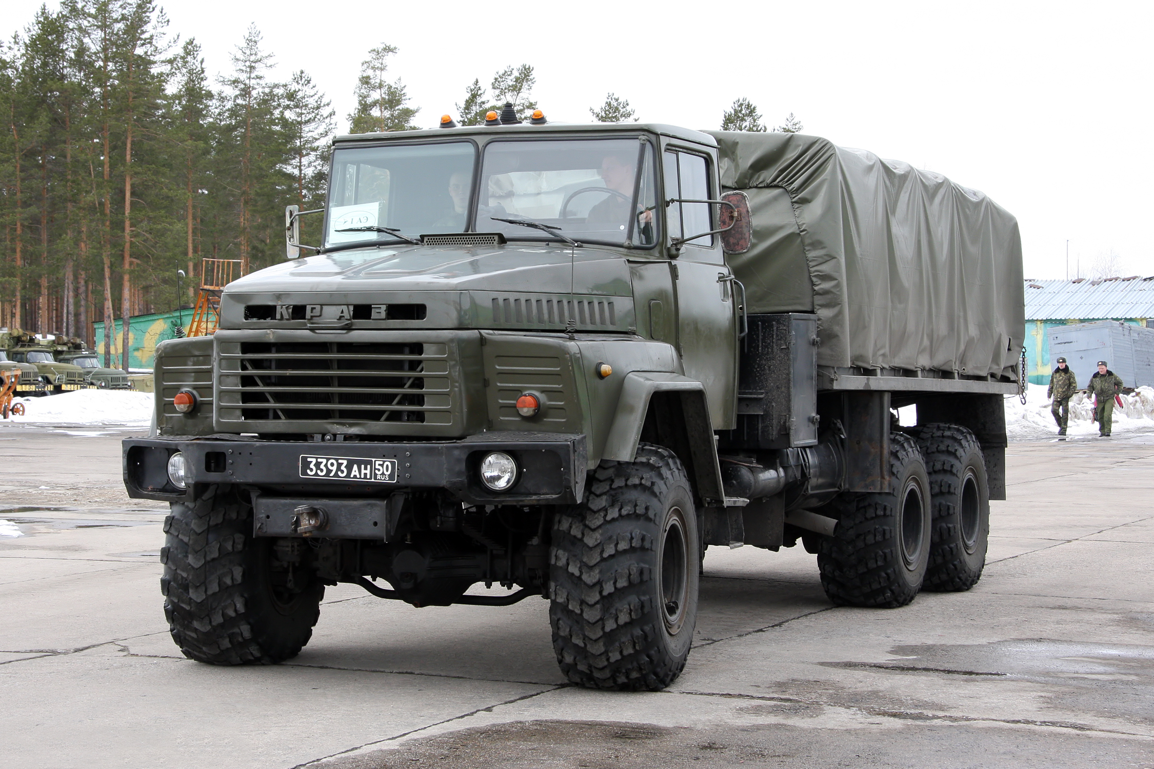 790th Fighter Order of Kutuzov 3rd class Aviation Regiment, Khotilovo airbase